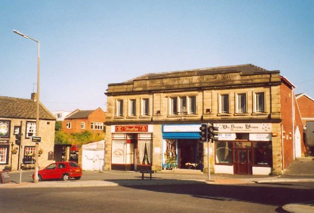 Former Co-op shop, Middlestown, Sitlington. This was quite a large store for a village, which was growing at the time, perhaps due to its position on the main road and near to coal mines. Middlestown did not attract any large-scale industry and never became a town; it is now a rural suburb of Wakefield.